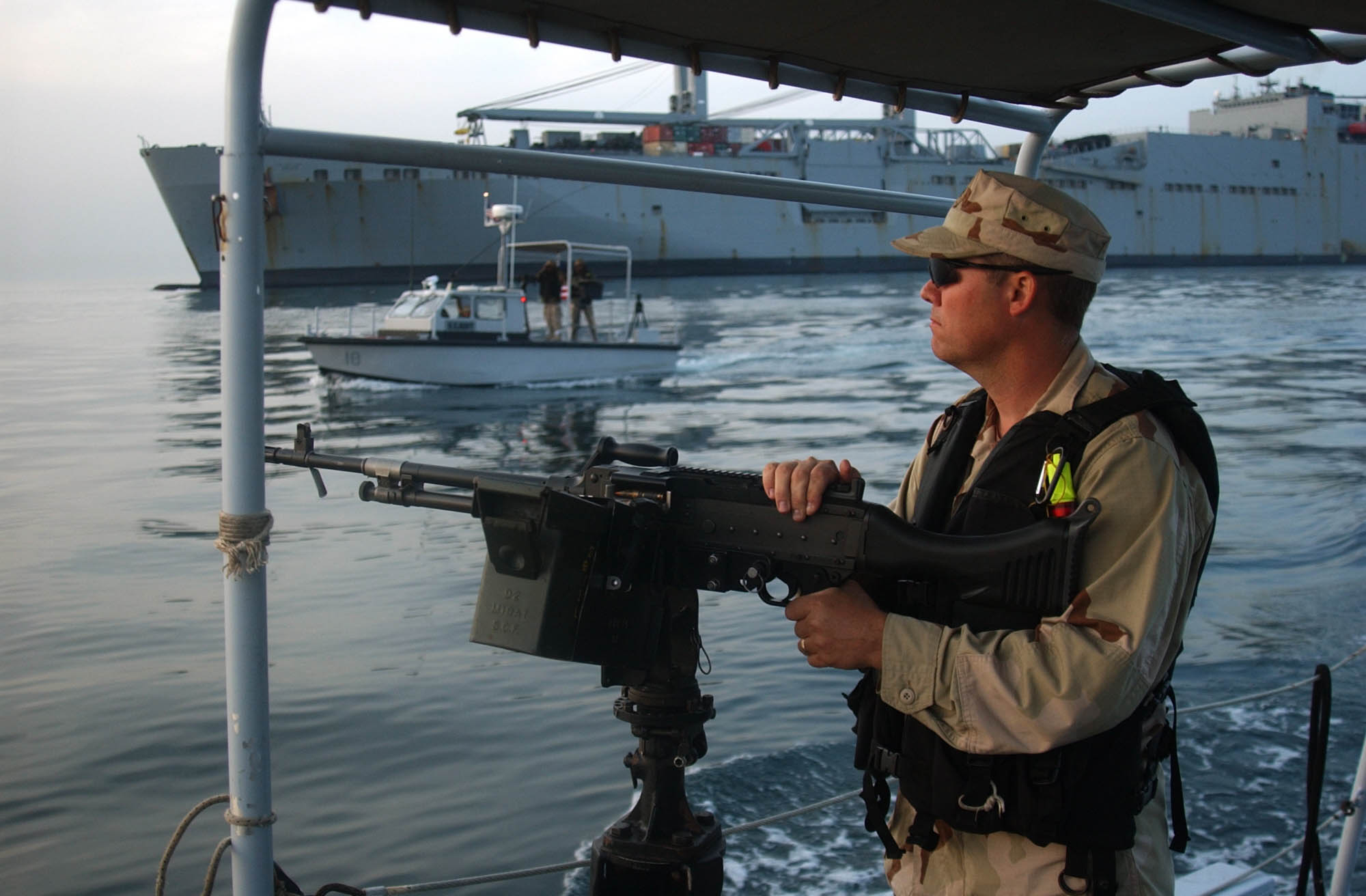 Ash Shuaybah, Kuwait (Mar. 1, 2004) – Gunner’s Mate 1st Class Jimmy Seago, assigned to Mobile Inshore Undersea Warfare Unit One Zero Eight (MIUWU 108) mans an M-60 machine gun while patrolling the port of Ash Shuaybah, Kuwait. MIUWU 108 is made up entirely of reserve units, providing seaboard anti-terrorism protection for the harbor. U.S. Navy photo by Journalist 3rd Class Eric L. Beauregard (RELEASED)